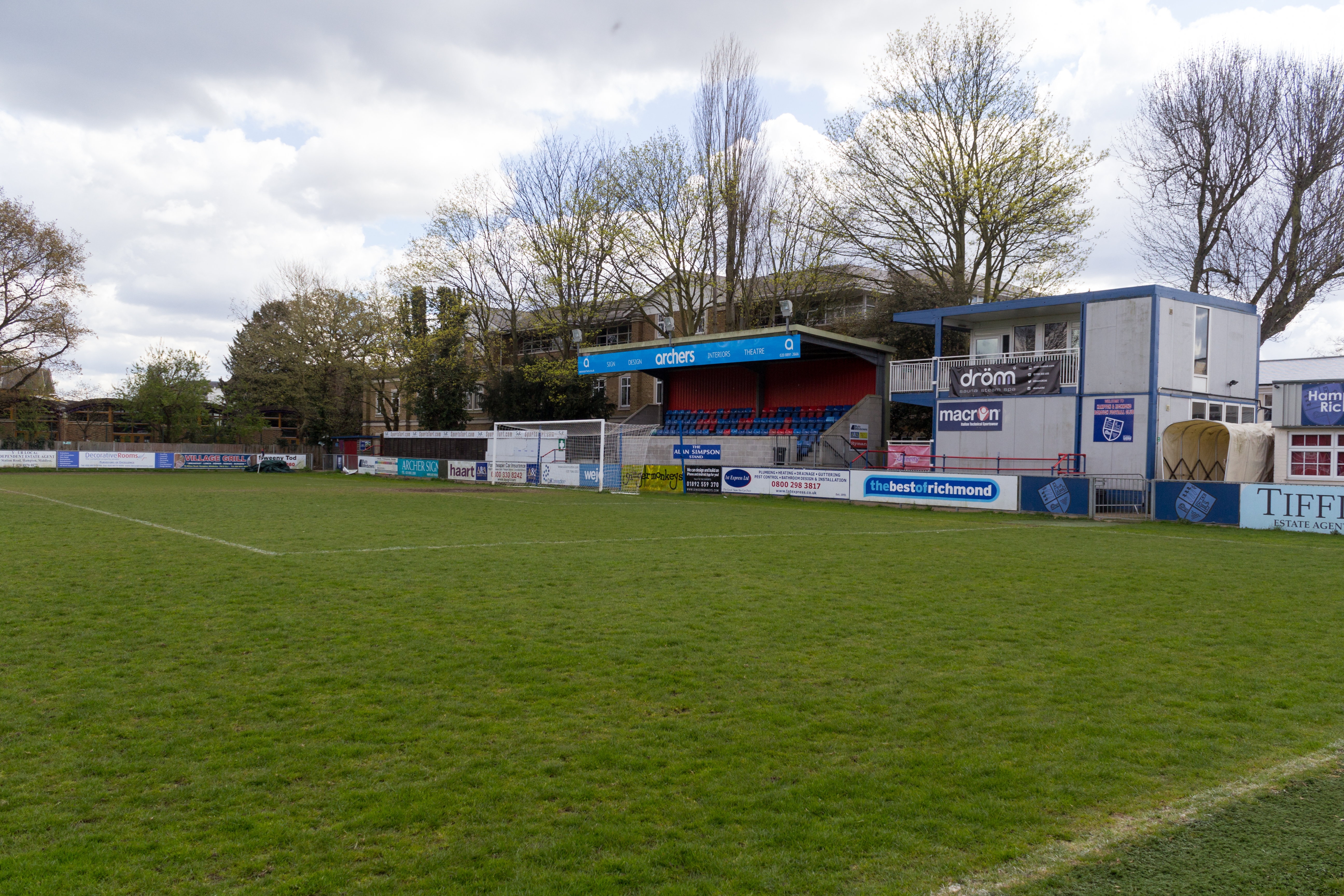 Hampton & Richmond Borough FC's Beveree Stadium